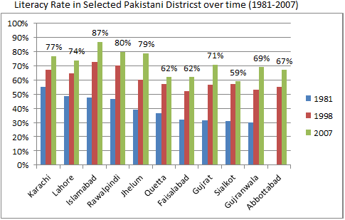 Shows literacy rates over a time period of 26 years.